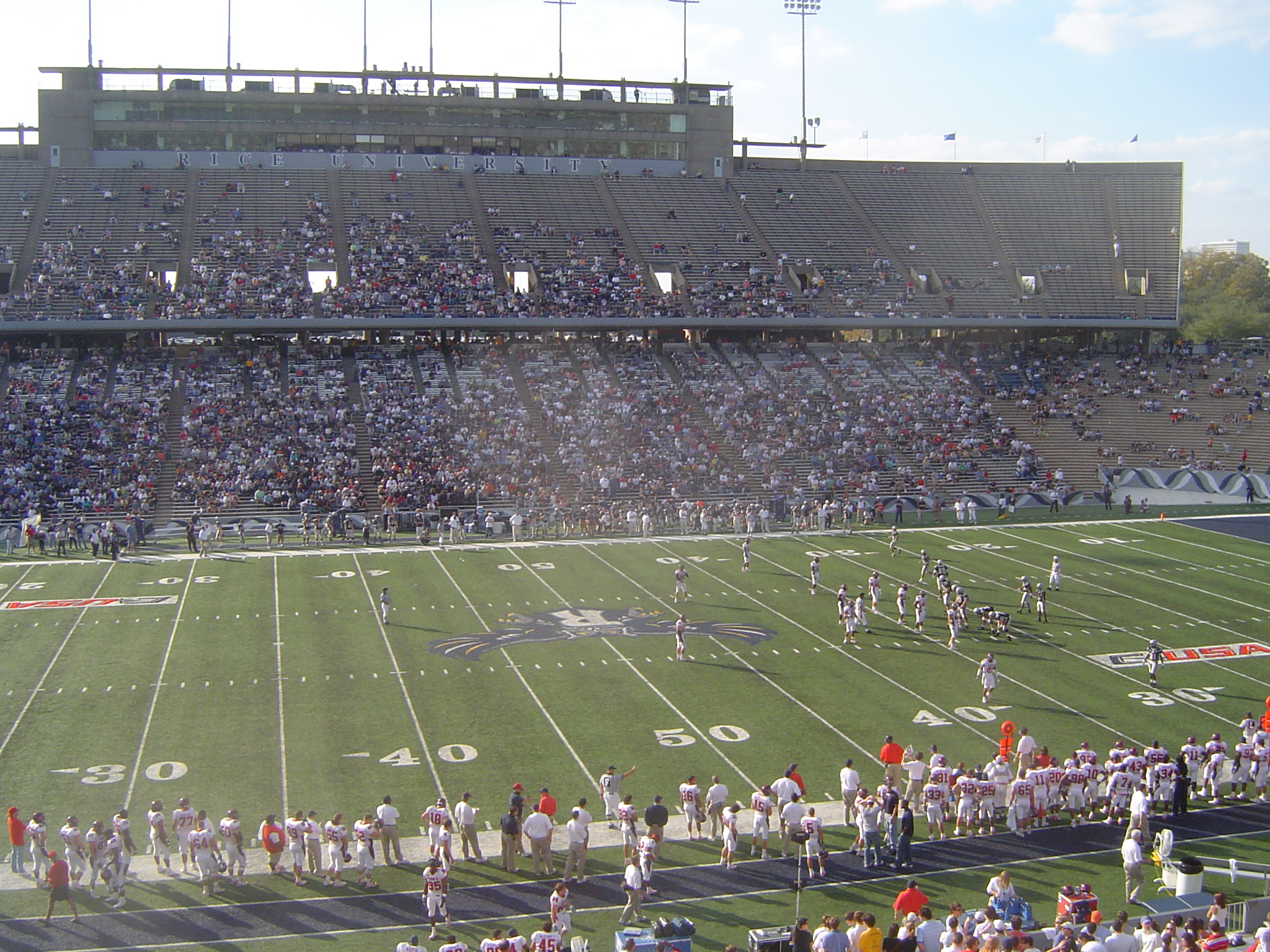 taken by jyardley en:25 November en:2006 during Rice's 31-27 win over SMU that clinched the Owls' first bowl bid since 1961. Category:Images of Houston, Texas